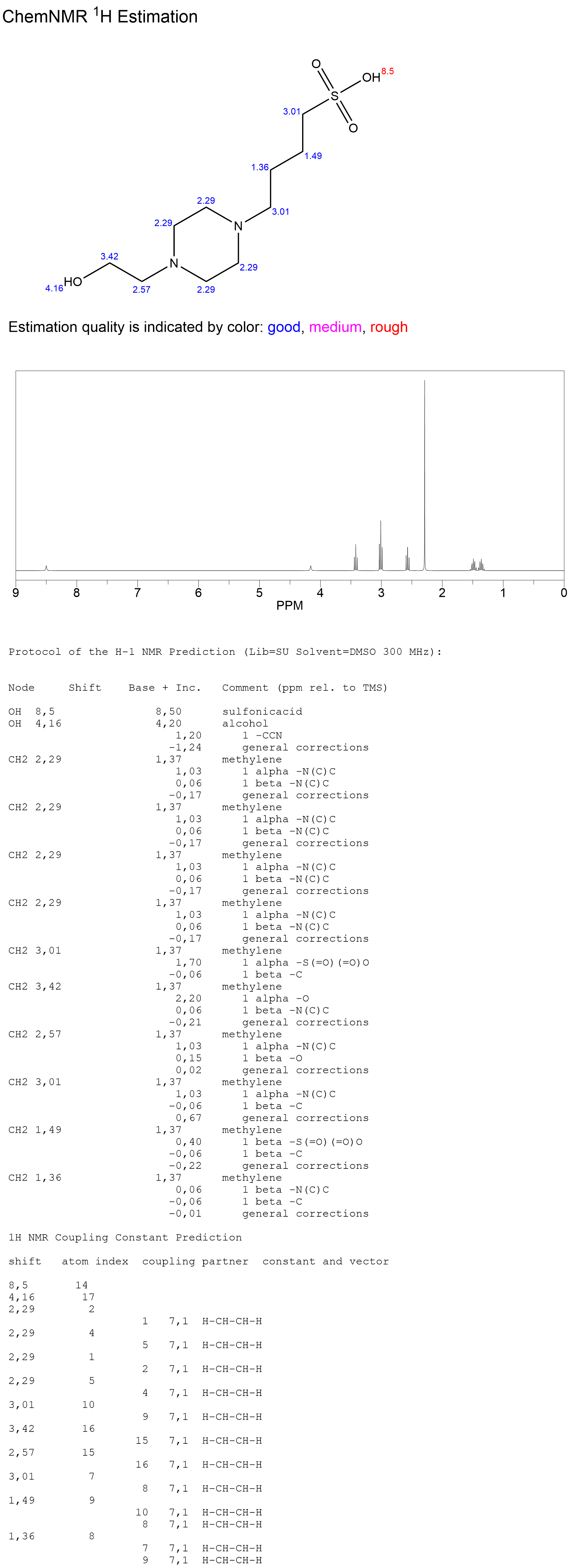 HEPBS 1H NMR spectrum generated by ChemNMR.